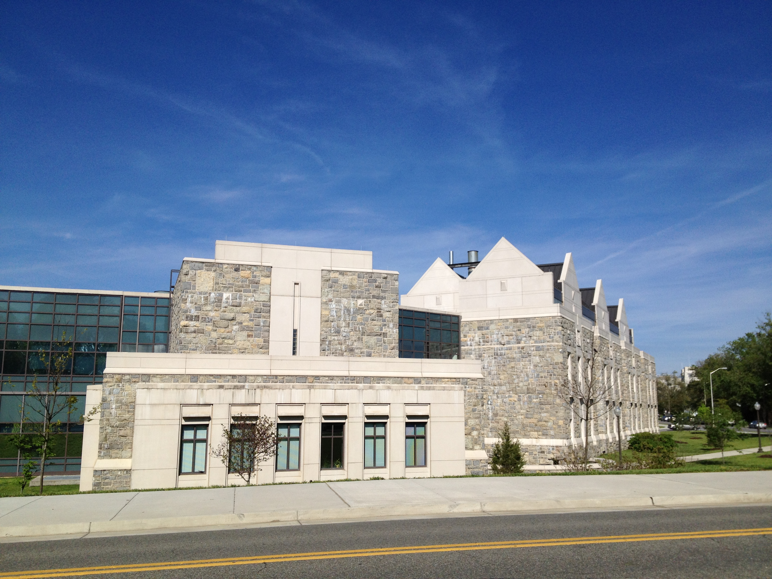 Virginia Bioinformatics Institute, Virginia Tech, Blacksburg, Virginia